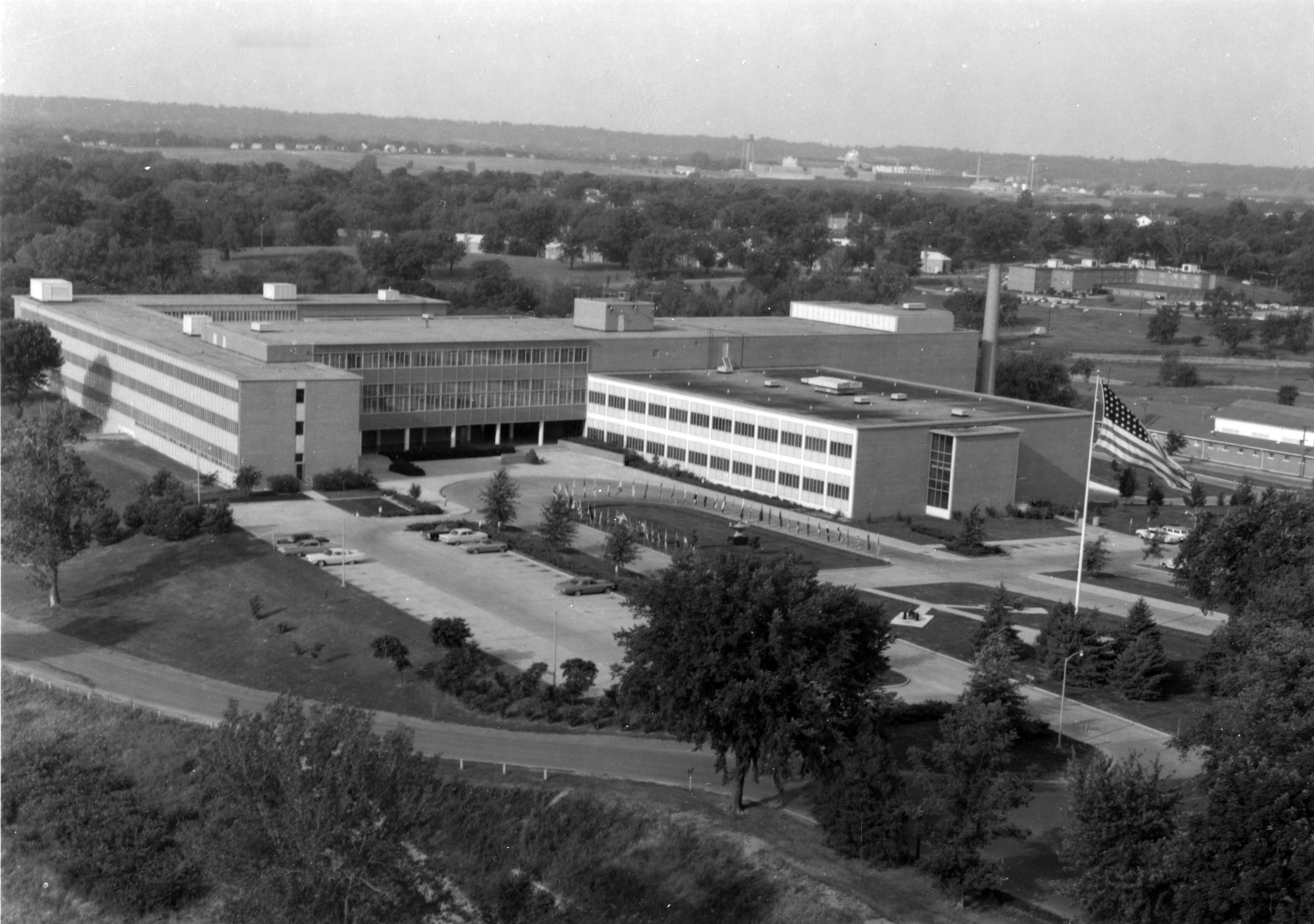 Photograph provided by the United States Army Combined Arms Research Library Archives (Fort Leavenworth, Kansas)